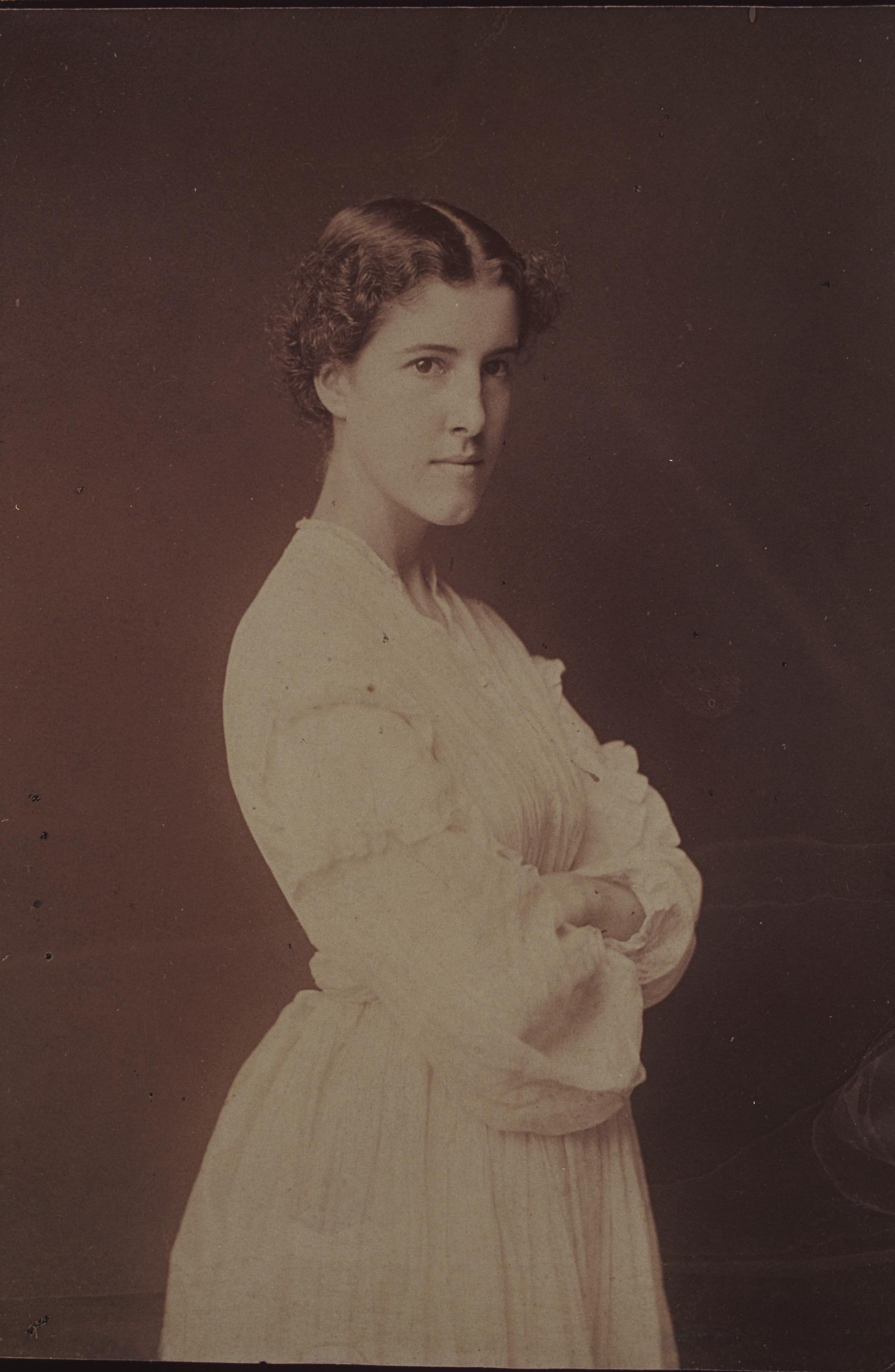 Portrait of Charlotte Perkins Gilman, 1884. Photographer: Hurd View catalog record Questions? Ask a Schlesinger Librarian